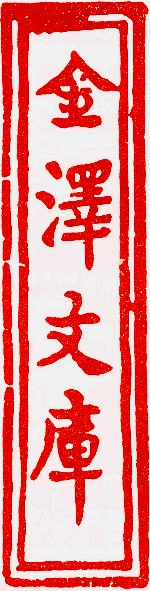 Seal of Kanazawa bunko